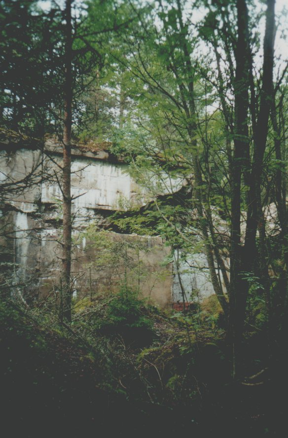 Aegna 1st patarei